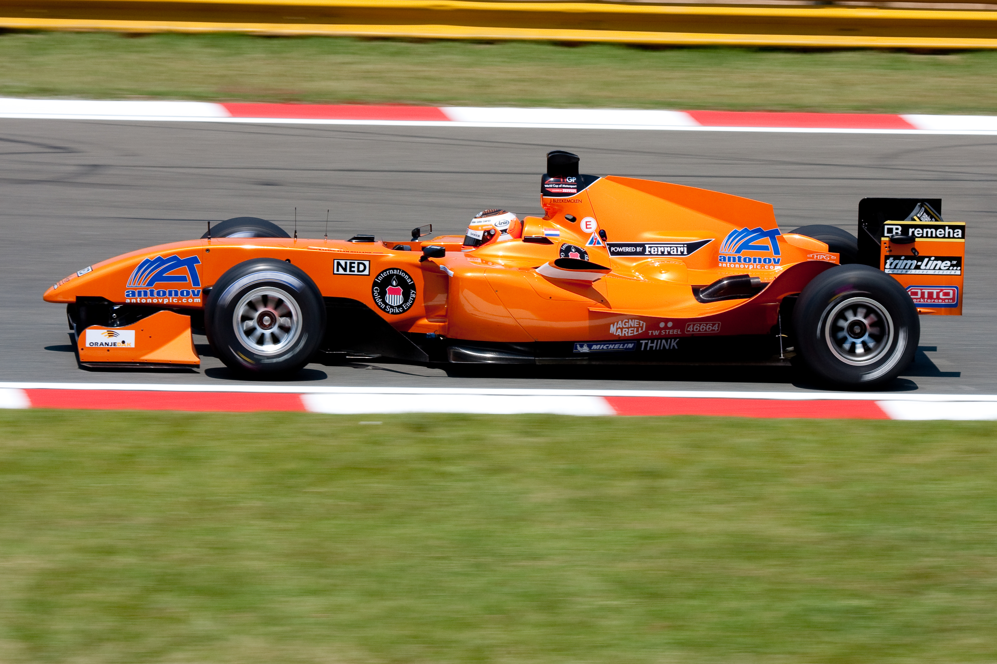 Team The Netherlands @ A1 Grand Prix Kyalami South Africa 2009